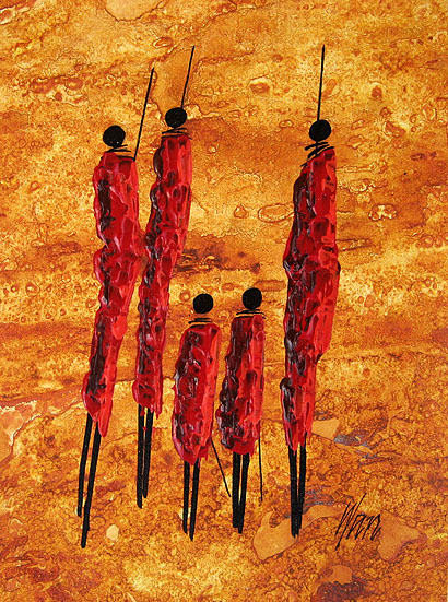 "Three Adults and Two Children Maasai" by Moses Wanyuki - (14x19cm), acrylic and ink on paper